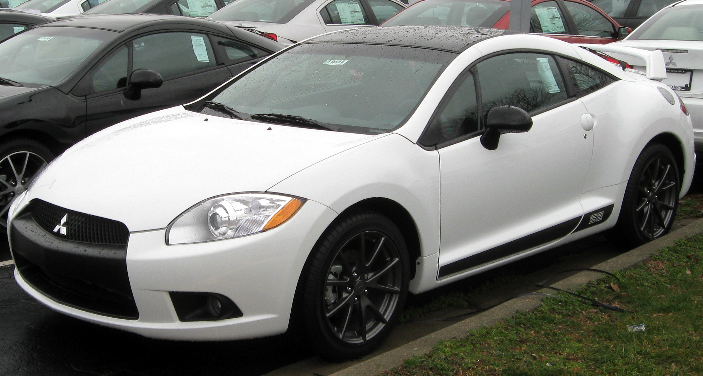 2012 Mitsubishi Eclipse photographed in Silver Spring, Maryland, USA.